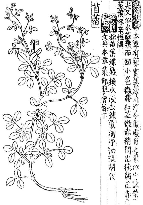 中文（香港）: 《救荒本草》書影 A picture of alfalfa (known botanically as Medicago sativa and in traditional medicine as Herba Medicaginis, 苜蓿) from an edition of the early Chinese herbal book Jiuhuang Bencao